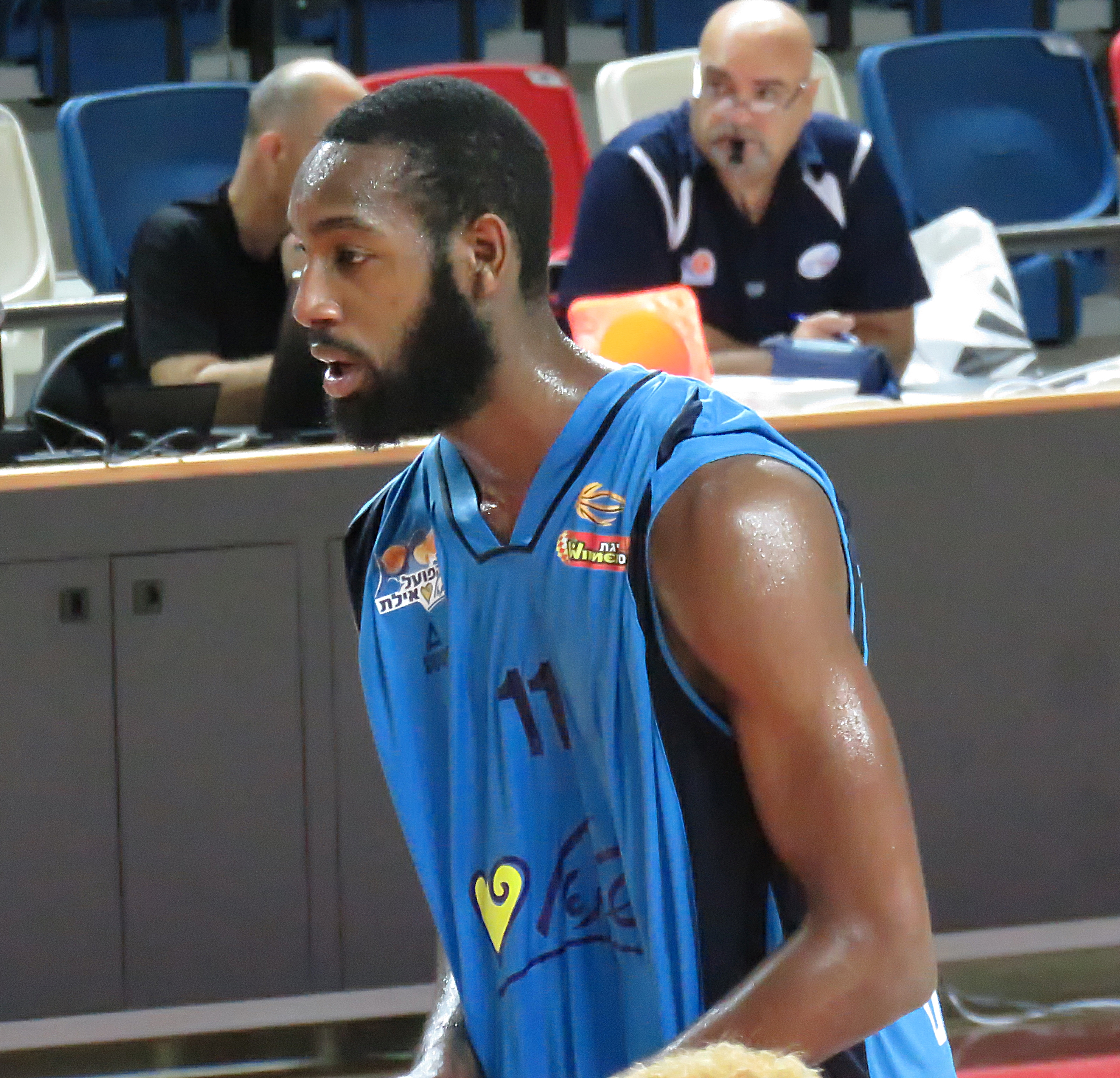 Hapoel Tel Aviv vs. Hapoel Eilat - Pre-season friendly, Septeber 11, 2015